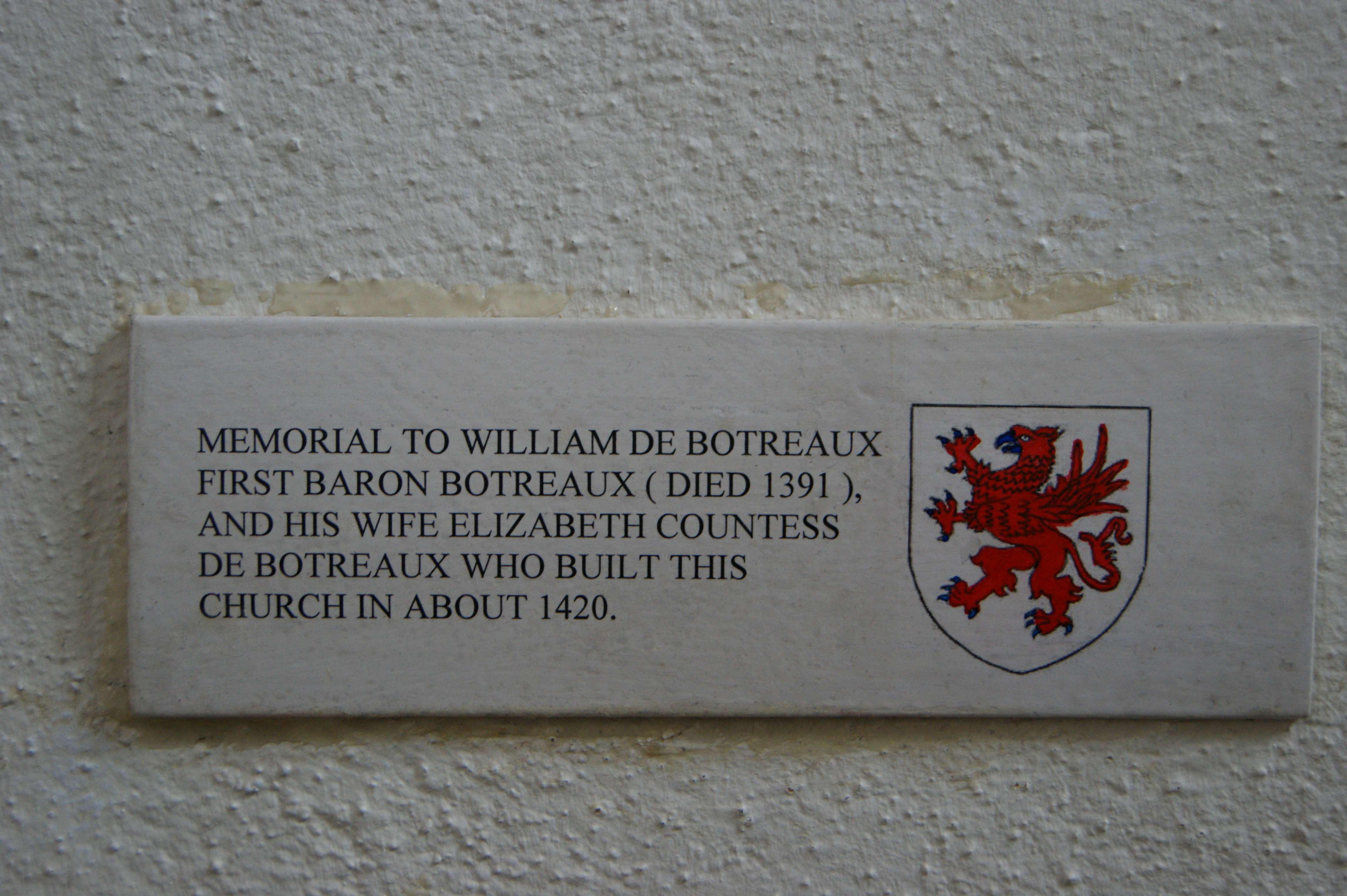 North Cadbury Church (St. Michael), Somerset, 26 July 2015. 15th Century Perpendicular. The church was built by Lady Elizabeth Botreaux of adjacent North Cadbury Court in thanks for the safe return of her son from the French Wars (He survived the Battle of Agincourt); she intended to make it a collegiate church and when completed in 1423 it was very grand but for some reason it did not become a collegiate church. Pictured is